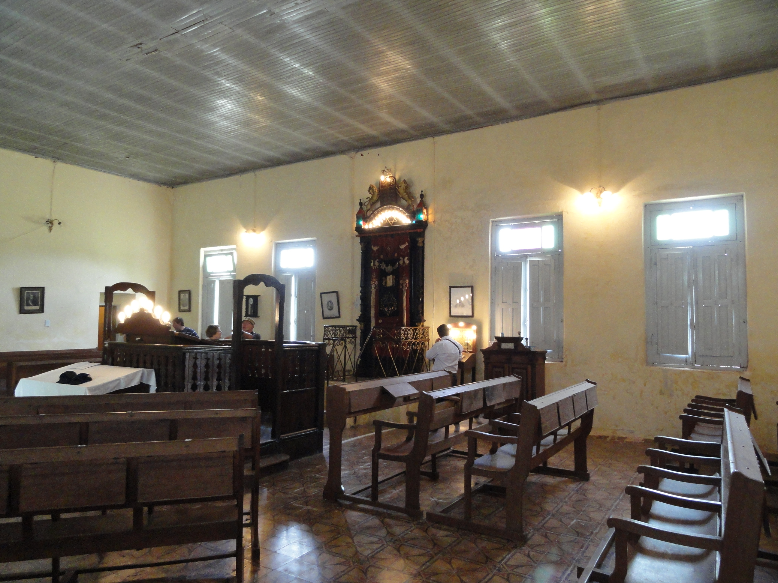 Synagogue of Villa Dominguez (Argentina): general view of the inside